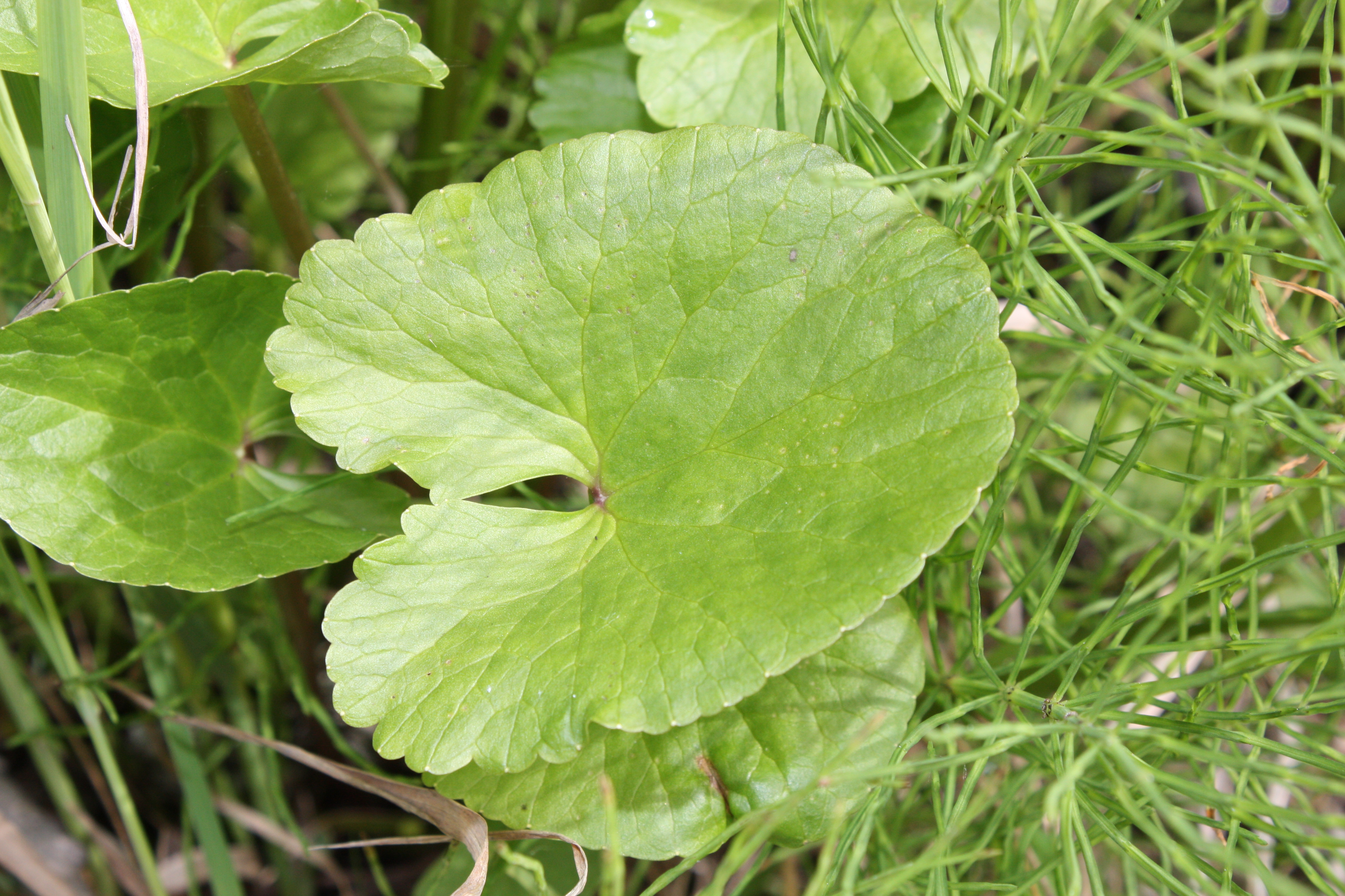 Yellow Marsh Marigold, Yellow Marsh Marigold